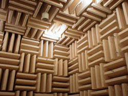 Photo of an anechoic chamber Photo was taken at the Kyushu Institute of Design's anechoic chamber by Alexis Glass. Free to use under GDFL.